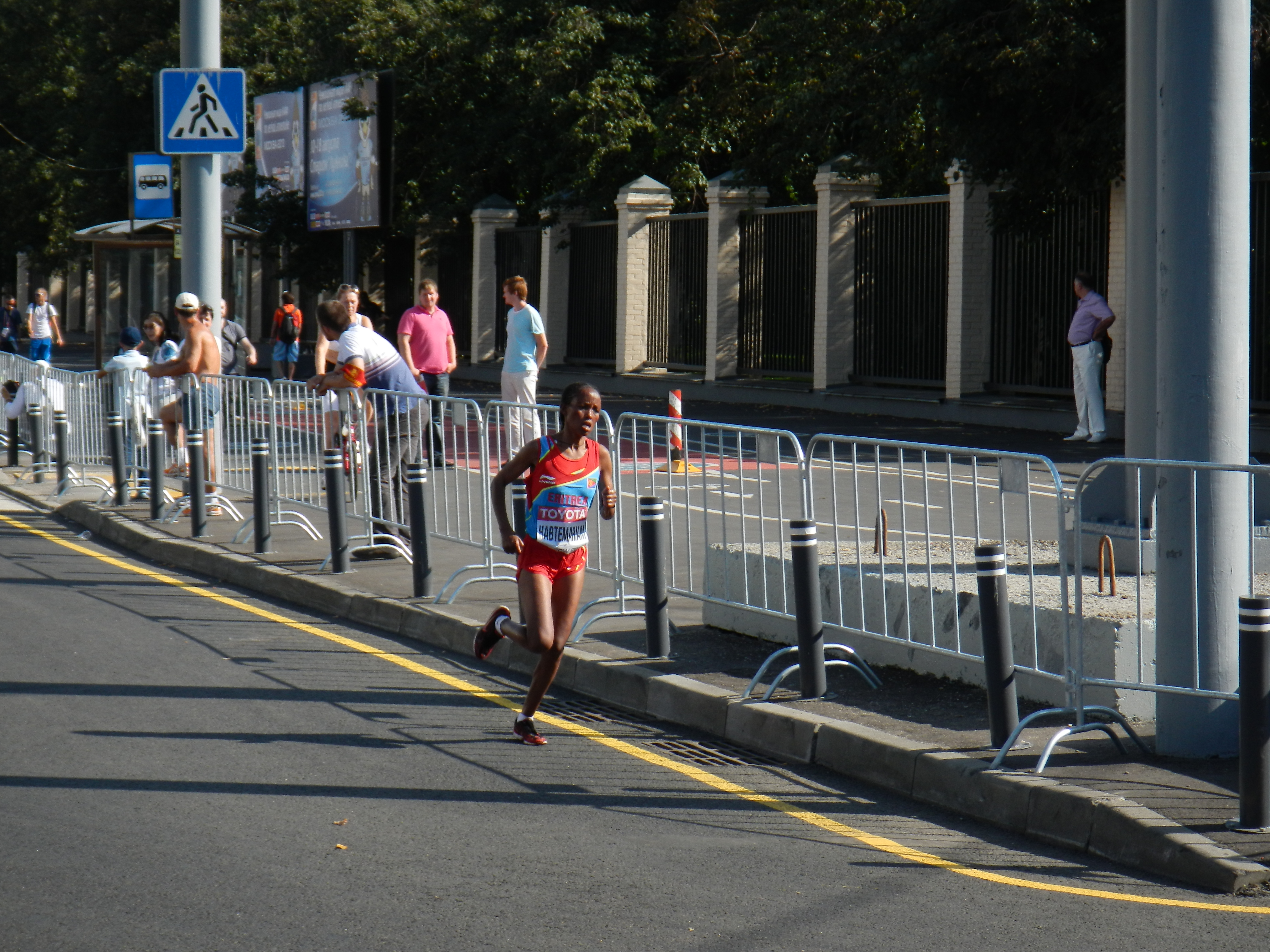 Nebiat Habtemariam during 2013 World Championships in Athletics – Women's Marathon